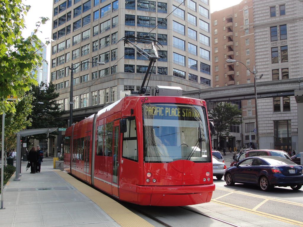 Seattle Streetcar